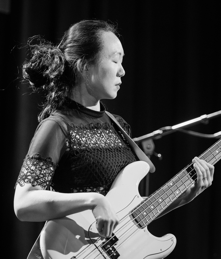 Linda May Han Oh at Victoria Teater. The concert took place on 23. October 2019 in Oslo. Lineup:Linda May Han Oh (double bass and bass guitar)Will Vinson (alto saxophone)Matthew Stevens (guitar)Eric Doob (drums)